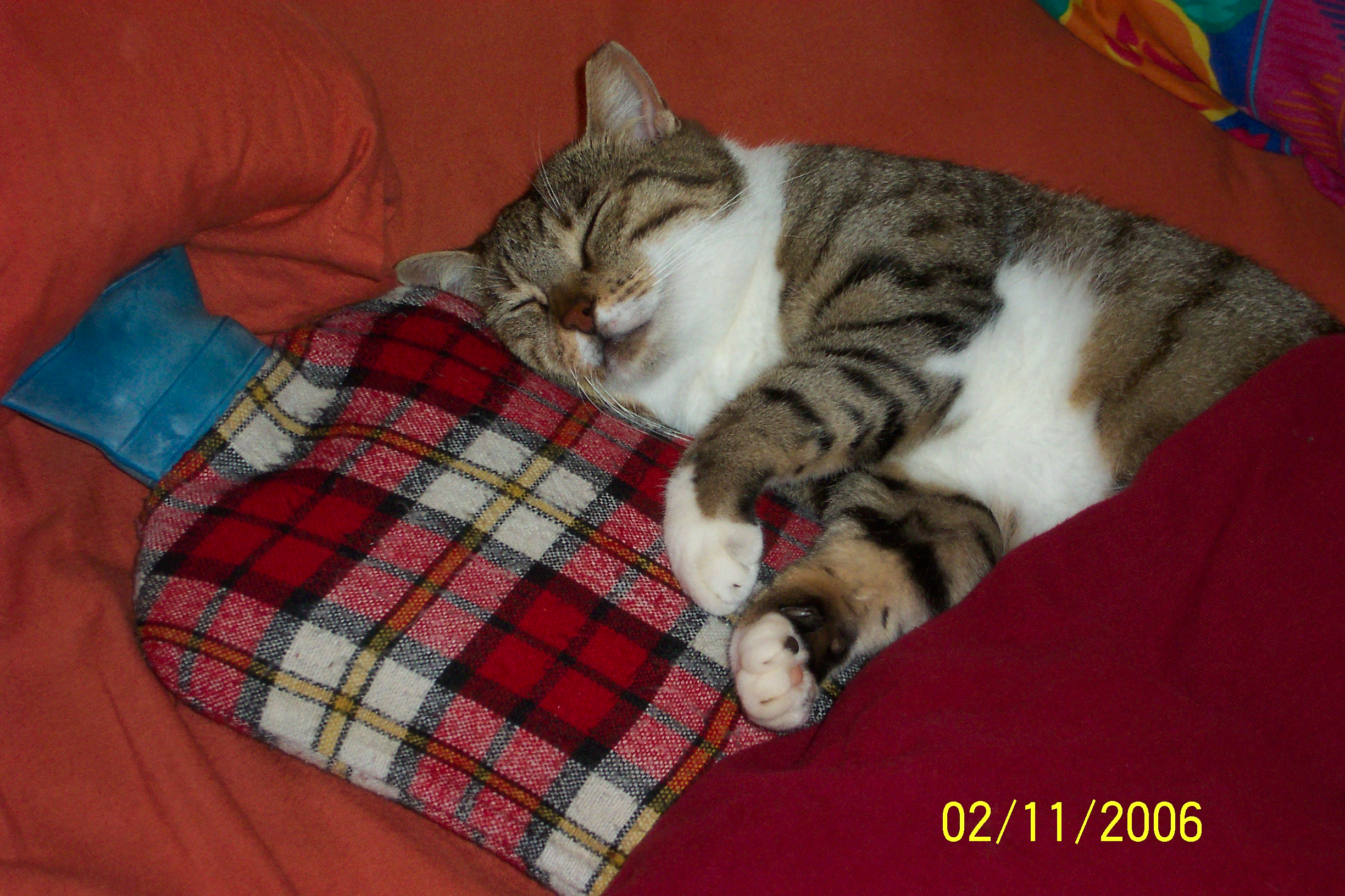 Beit Oren is a kibbutz in northern Israel. It falls under the jurisdiction of Hof HaCarmel Regional Council.